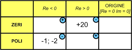 An image concerning how to make a Bode Plot